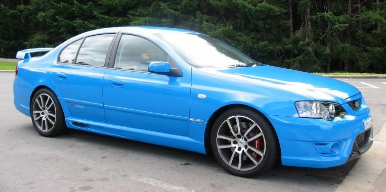 2005 FPV F6 Typhoon (BF) sedan, photographed in Tasmania, Australia.